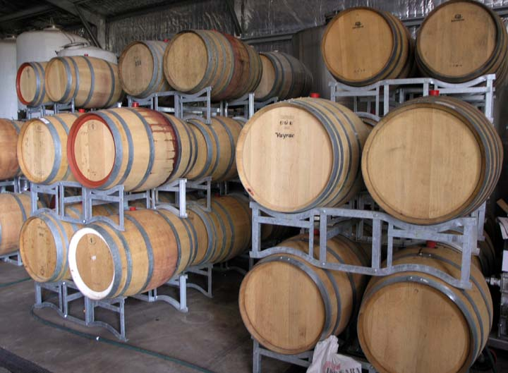 This is an image I took myself using an Olympus C8080W digital camera. It shows barrels of wine in a winery in the South West of W.A.